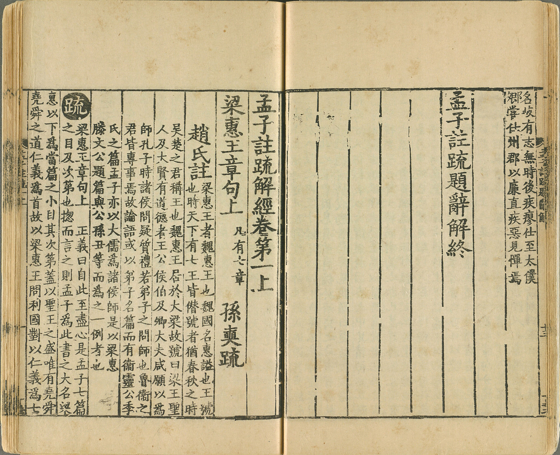 Mencius, Annotated and Commentated, a Yuan-Ming copy mended on top of a Song dynasty printing from the Jiatai reign period (1201-1204)